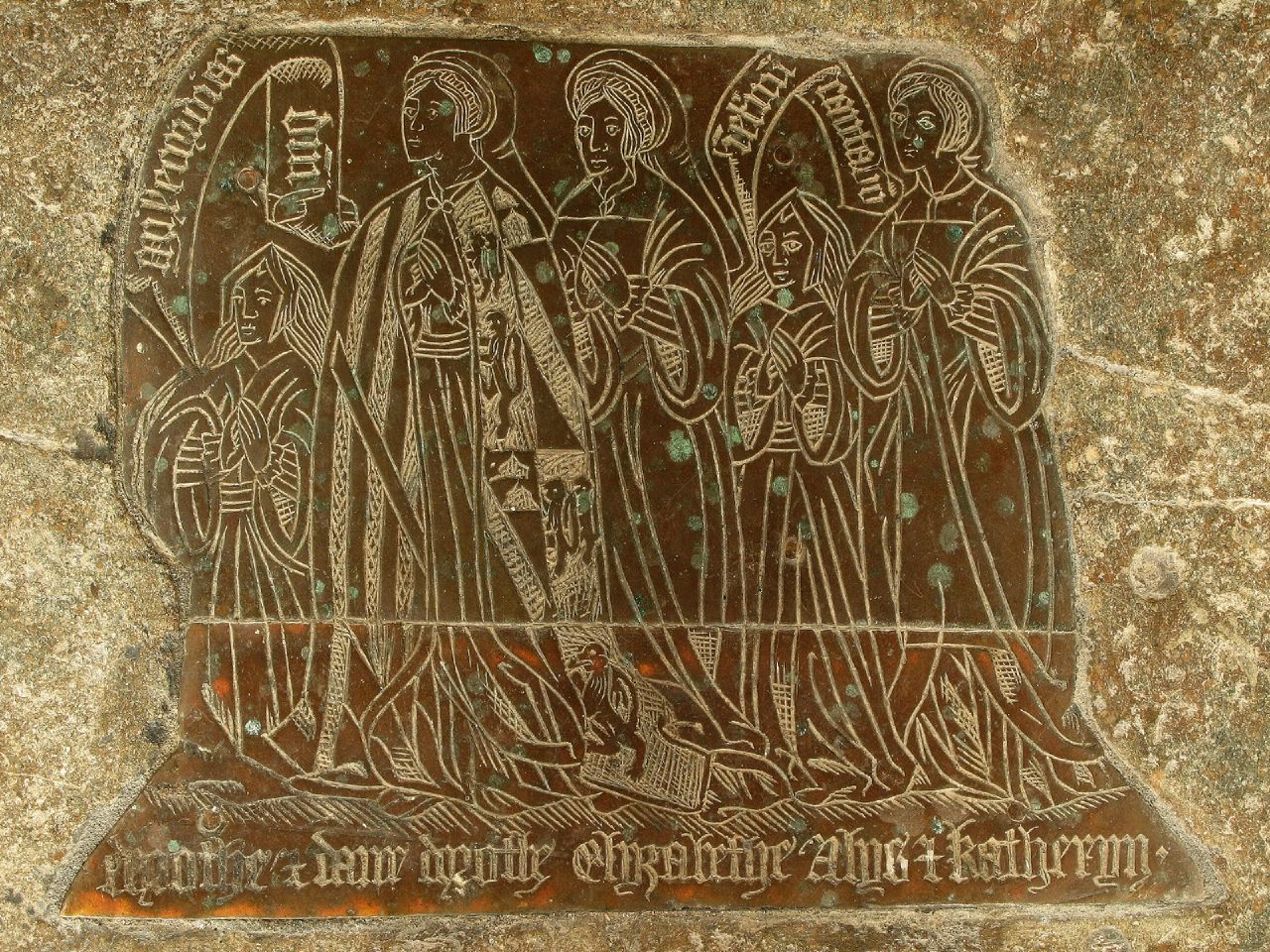 (St Mary and St Barlok).brass monument in chancel floor,to Sir Anthony Fitzherbert,d.1538, and wife-detail in church in Norbury, Derbyshire. The foremost standing lady (Dame Dorothy?) wears a mantle on which are shown the following arms: Gules, three lions rampant or (FitHerbert of Tissington) quartering: Argent, a chief vairy gules and or overall a bend sable (FitzHerbert of Swynnerton). Inscription below: "Dorothy & Dame Dorothy, Elizabethe Alys & Katheryn"